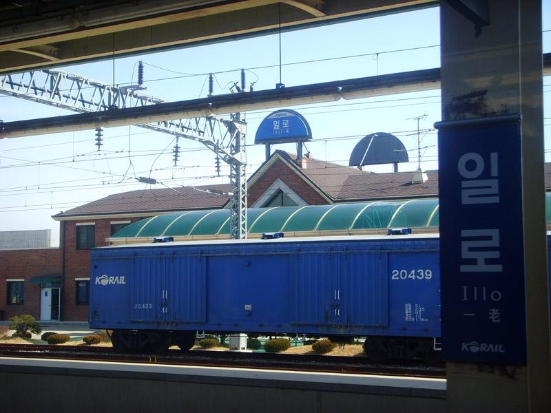 Illo Station (Honam Line, Daebul Line) (Maekpo-ri, Simhyang-myeon, Muan-gun, Jeollanam-do, South Korea)